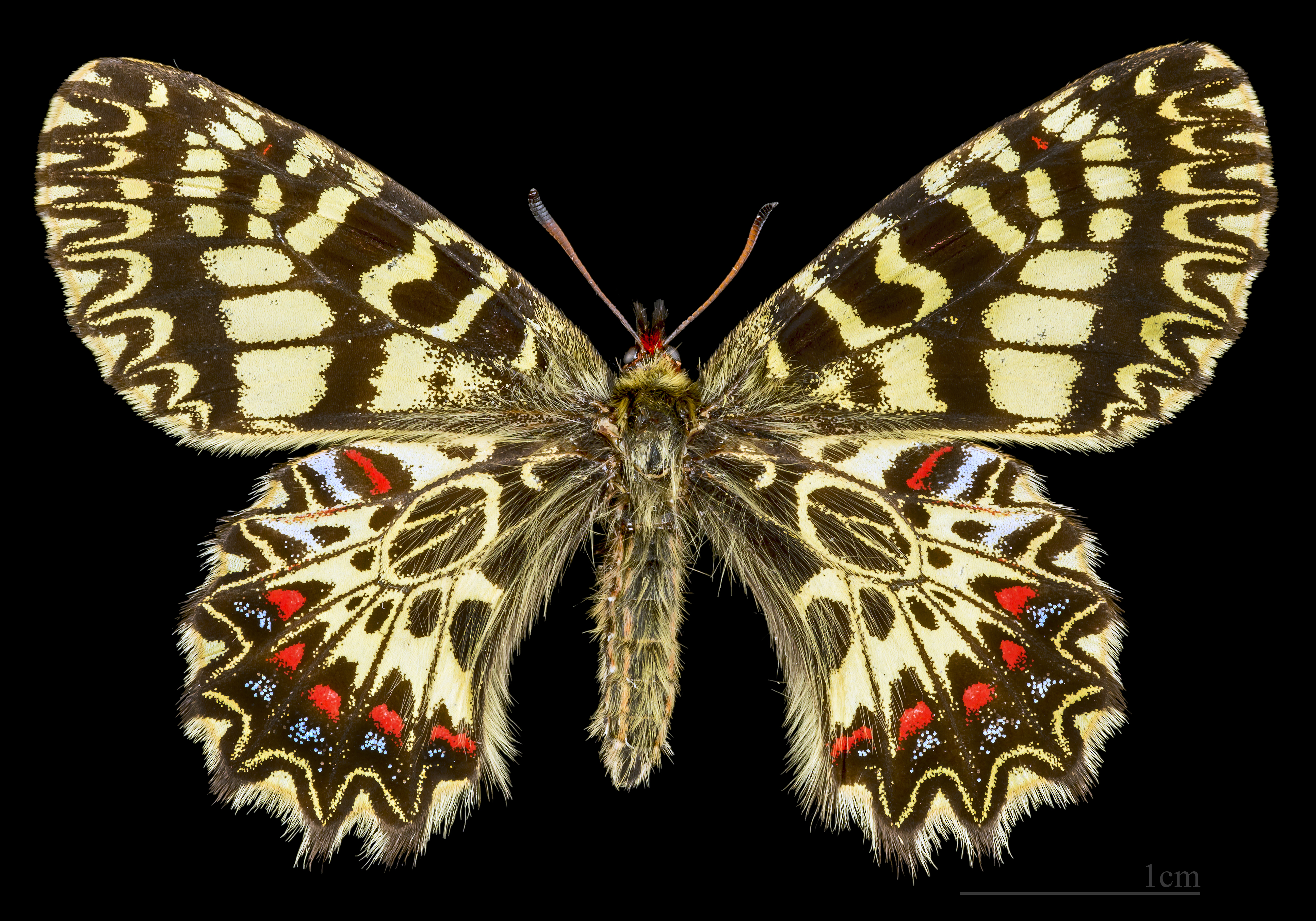 Southern Festoon. Dorsal side.